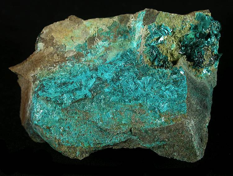 Tyrolite Locality: Centennial Eureka Mine (Blue Rock), Tintic District, East Tintic Mts, Juab County, Utah, USA (Locality at ) Size: 6.5 x 44.7 x 4.4 cm. Tyrolite is an uncommon secondary copper arsenate found in the oxidized zone of copper deposits. Radial sprays of lustrous, very pretty turquoise-blue tyrolite lathes richly and attractively cover the matrix plate on this fine and highly representative specimen from a historic and long-extinct Utah locale - the Centennial Eureka Mine, Tintic District. Very rich and highly representative of the species and locale.